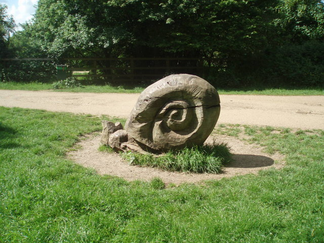 Snail in stone Near the entrance of Dinton Pastures